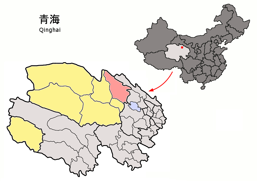 Location of Tianjun County (pink) and Haixi Prefecture (yellow) within Qinghai province of China Map drawn in september 2007 using various sources, mainly : Qinghai province administrative regions GIS data: 1:1M, County level, 1990 Qinghai Counties map from "Plateau Perspectives" (the limits of some county-level subdivisions may not be accurate)